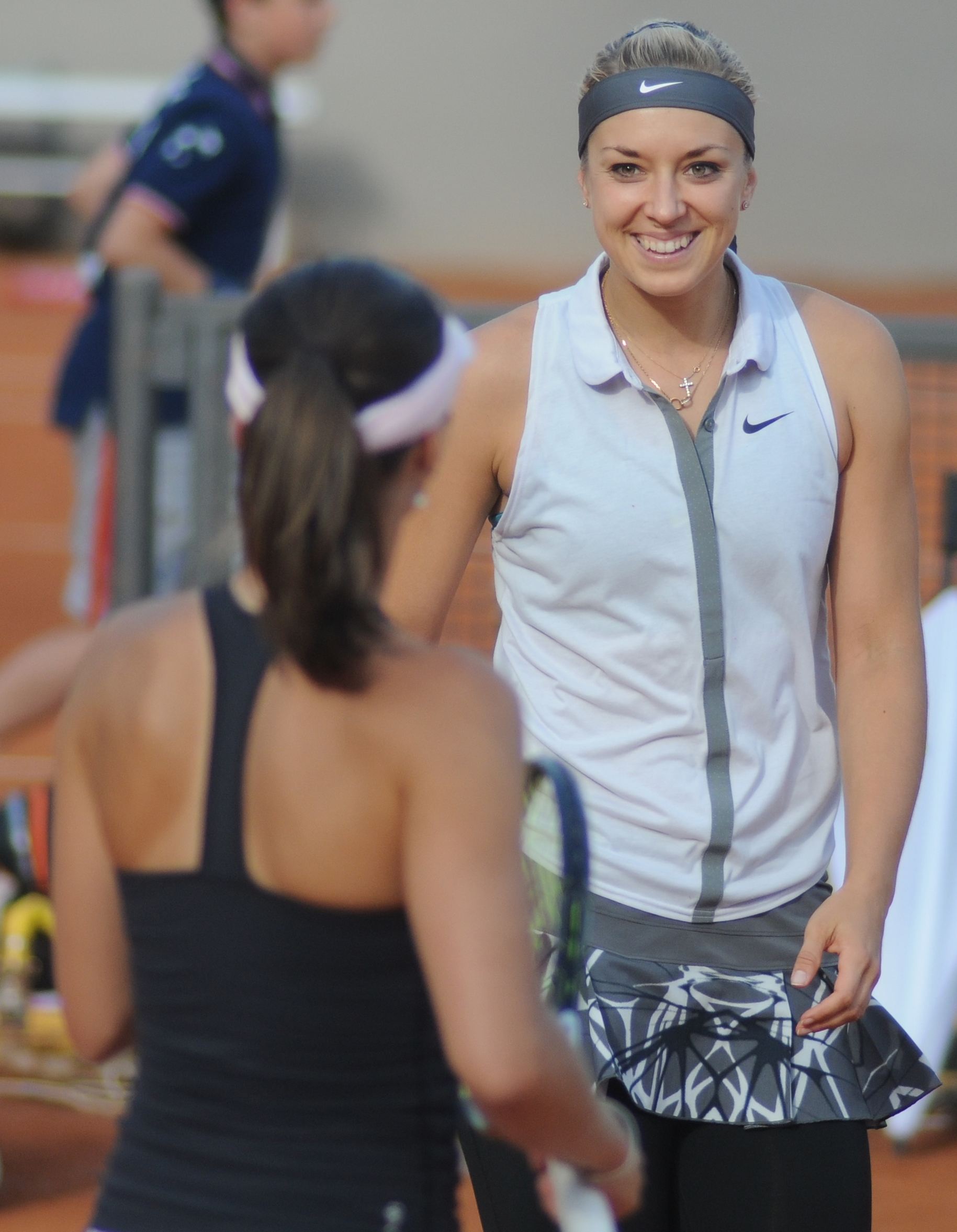 Sabine Lisicki and Martina Hingis at the 2014 Internazionali BNL d'Italia